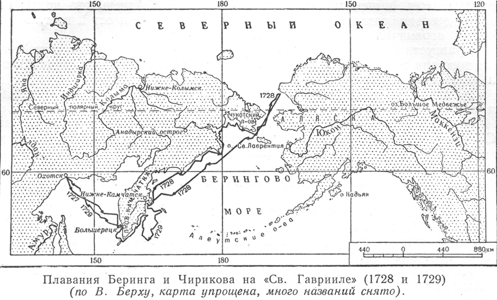 Path of the 1st Kamchatka Expedition